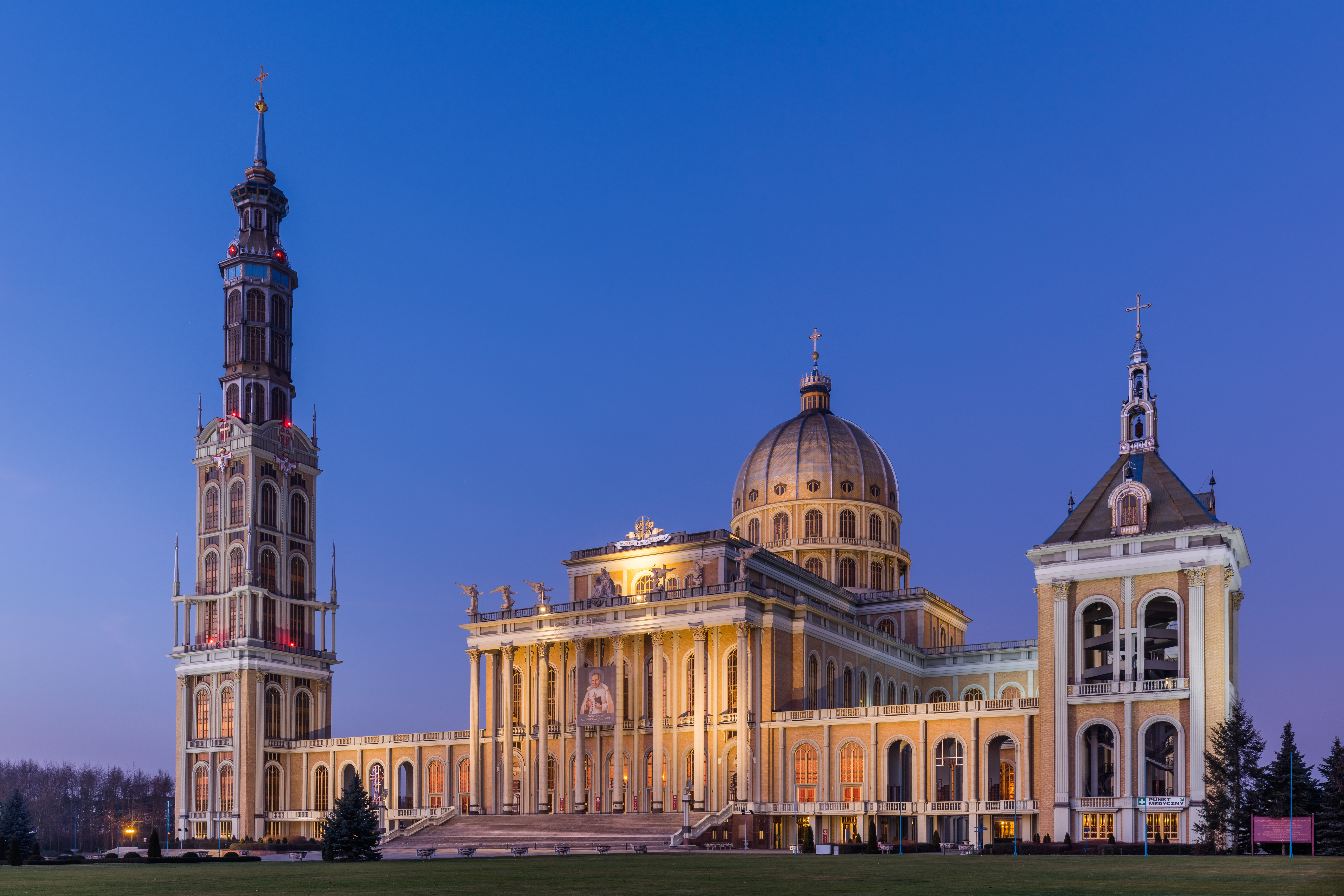 Basilica of Our Lady of Licheń, Stary Licheń, Poland